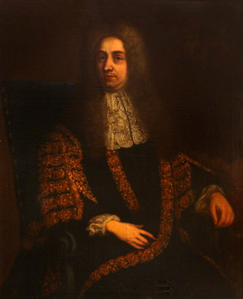 Portrait of Robert Jocelyn, 1st Viscount Jocelyn (c.1688–1756), Anglo-Irish politician and peer.